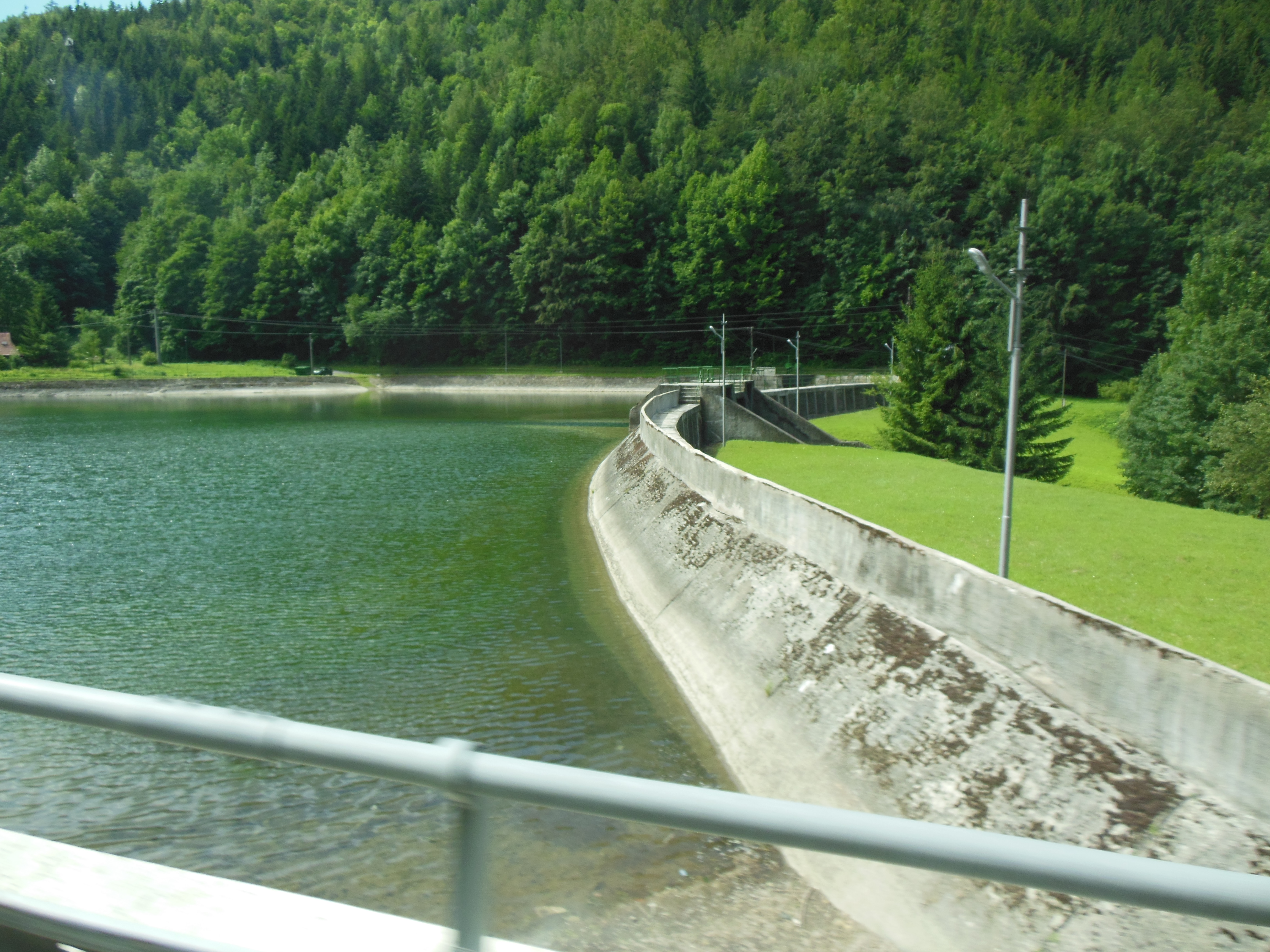 Water reservoir in Motyčka, Slovakia